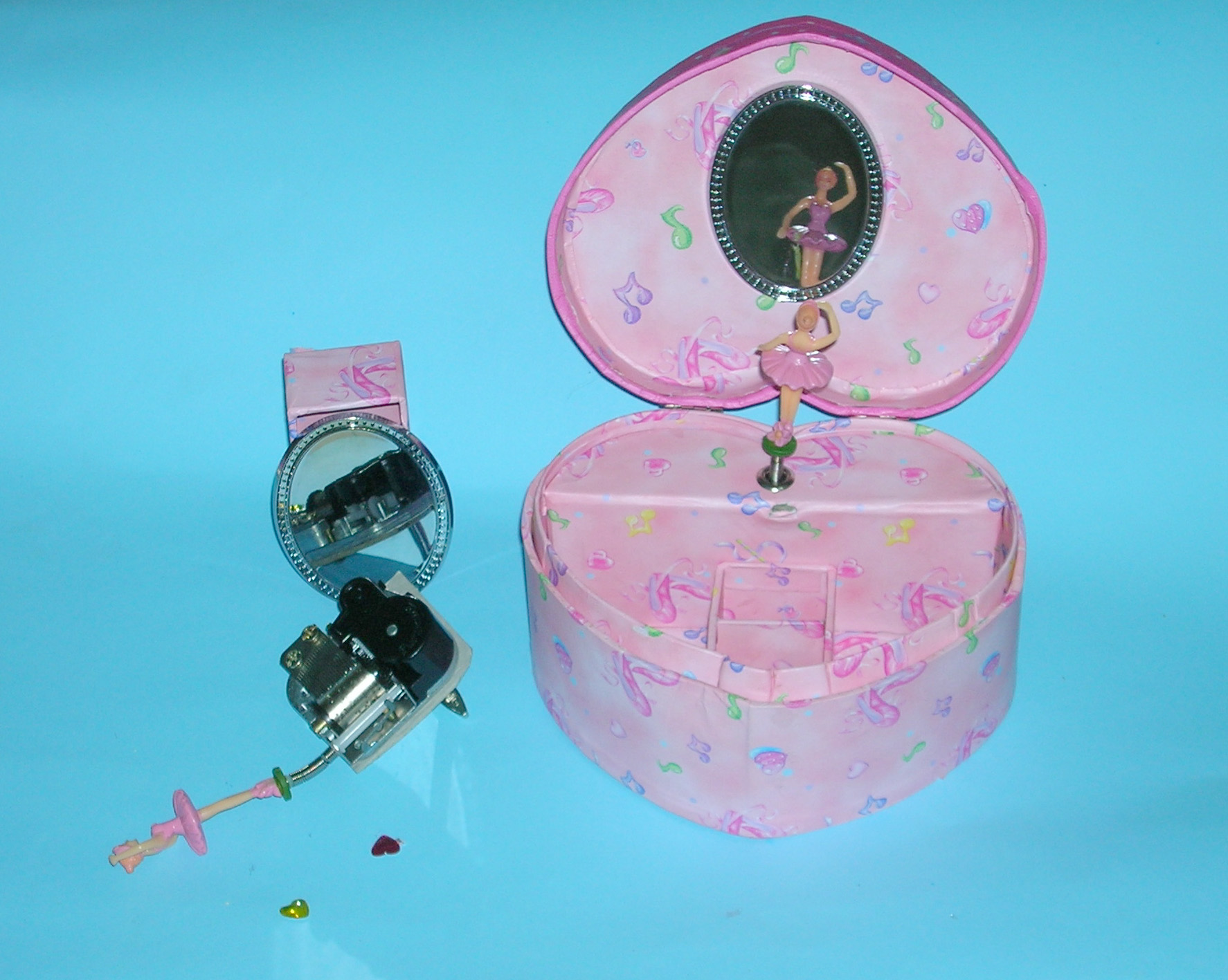 Musical box.